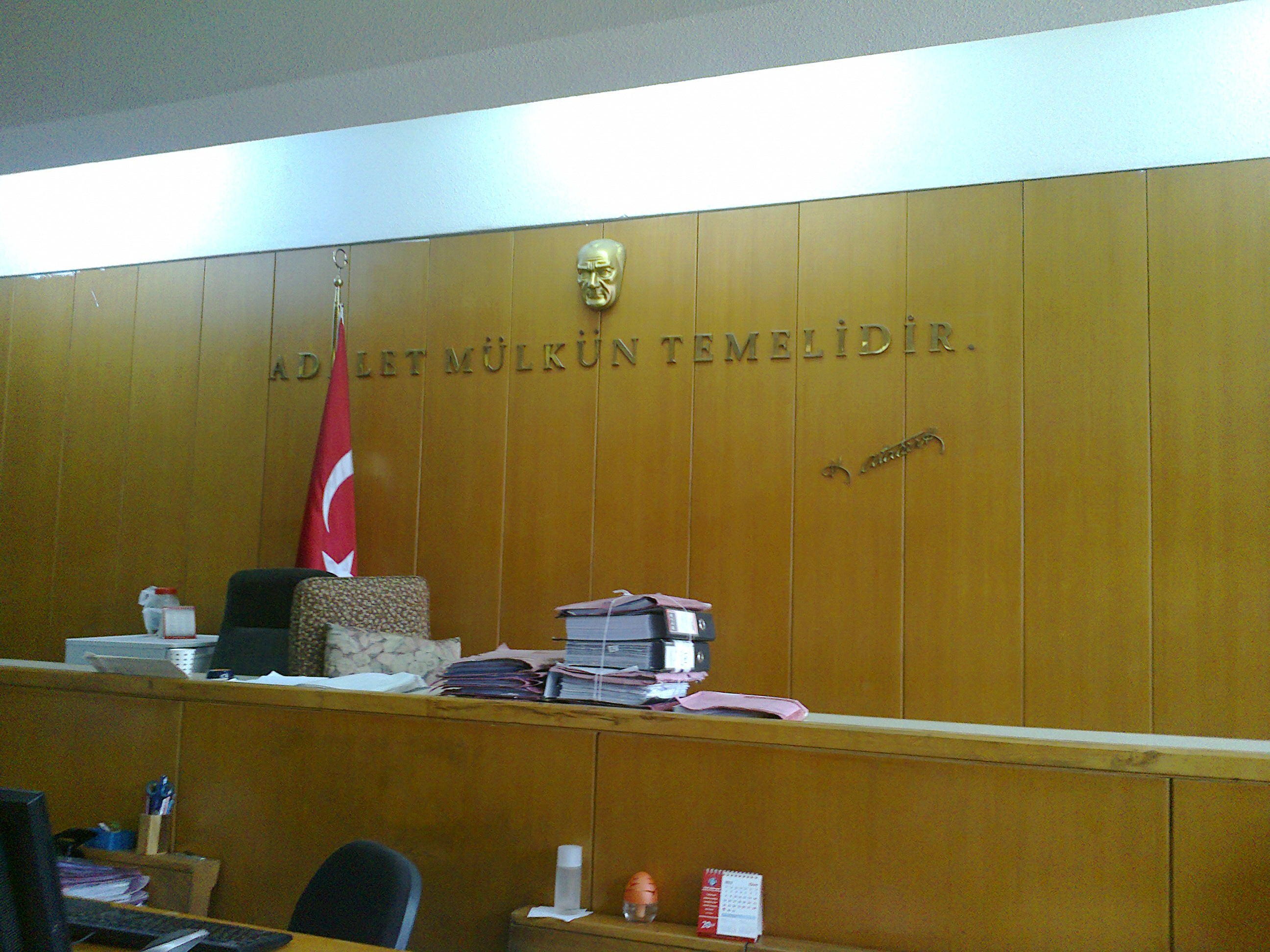 A courtroom in Turkey